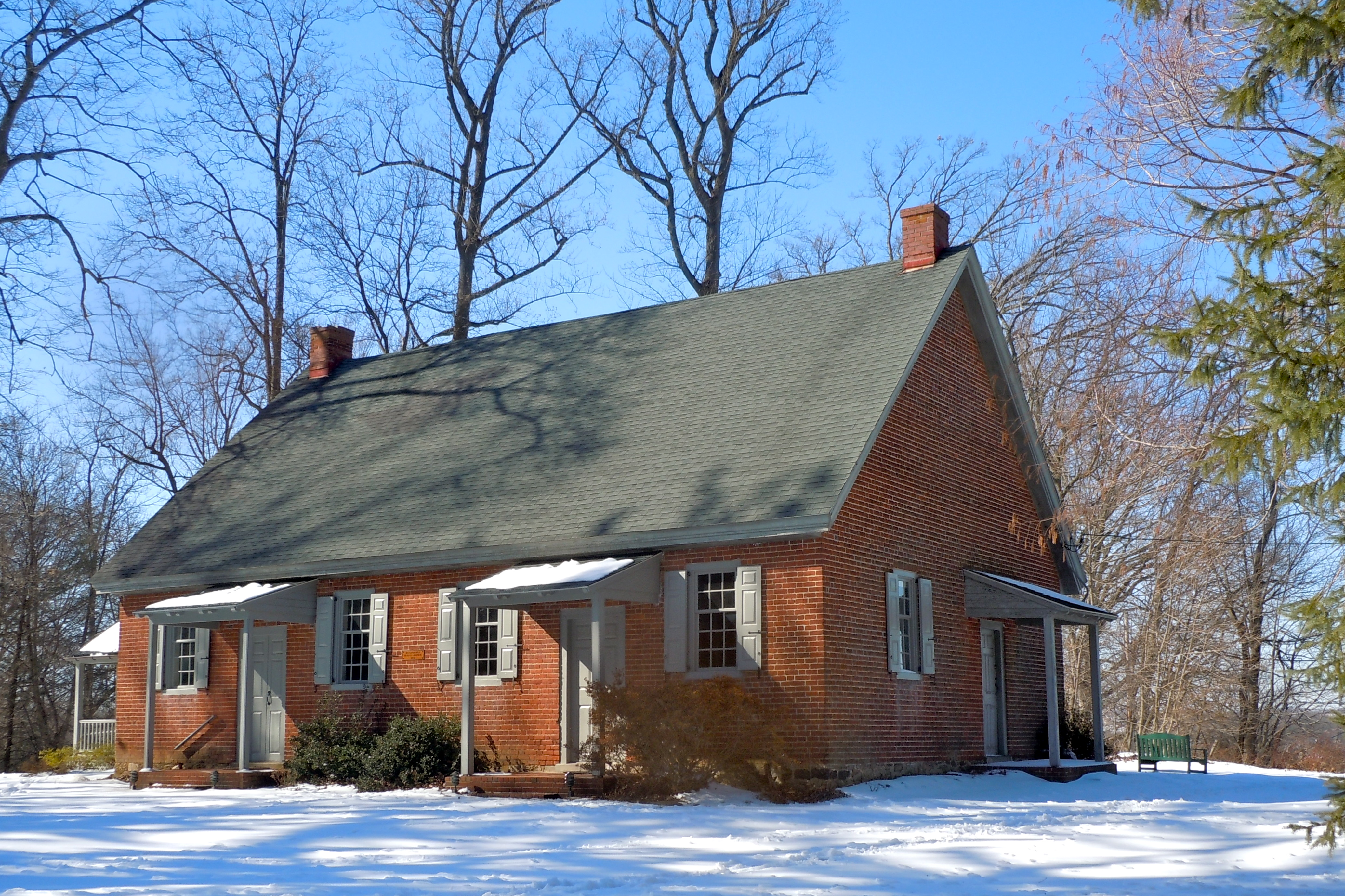 Marlborough Friends Meeting in the Marlborough Village Historic District on the NRHP since March 8, 1995. The historic district includes numbers 354–418 Marlborough Road and 901 and 940 Marlborough Springs Road, near Kennett Square, Pennsylvania. The HD is in East Marlborough and Newlin Townships. The meeting house is #901 Marlboro Springs Road, and probably one of only a few buildings in in the HD in Newlin Township.